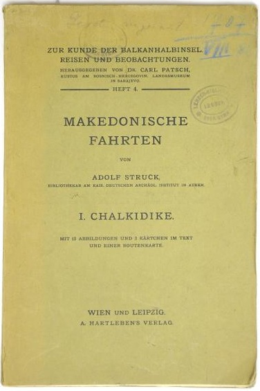 Makedonishe Fahrten 1907